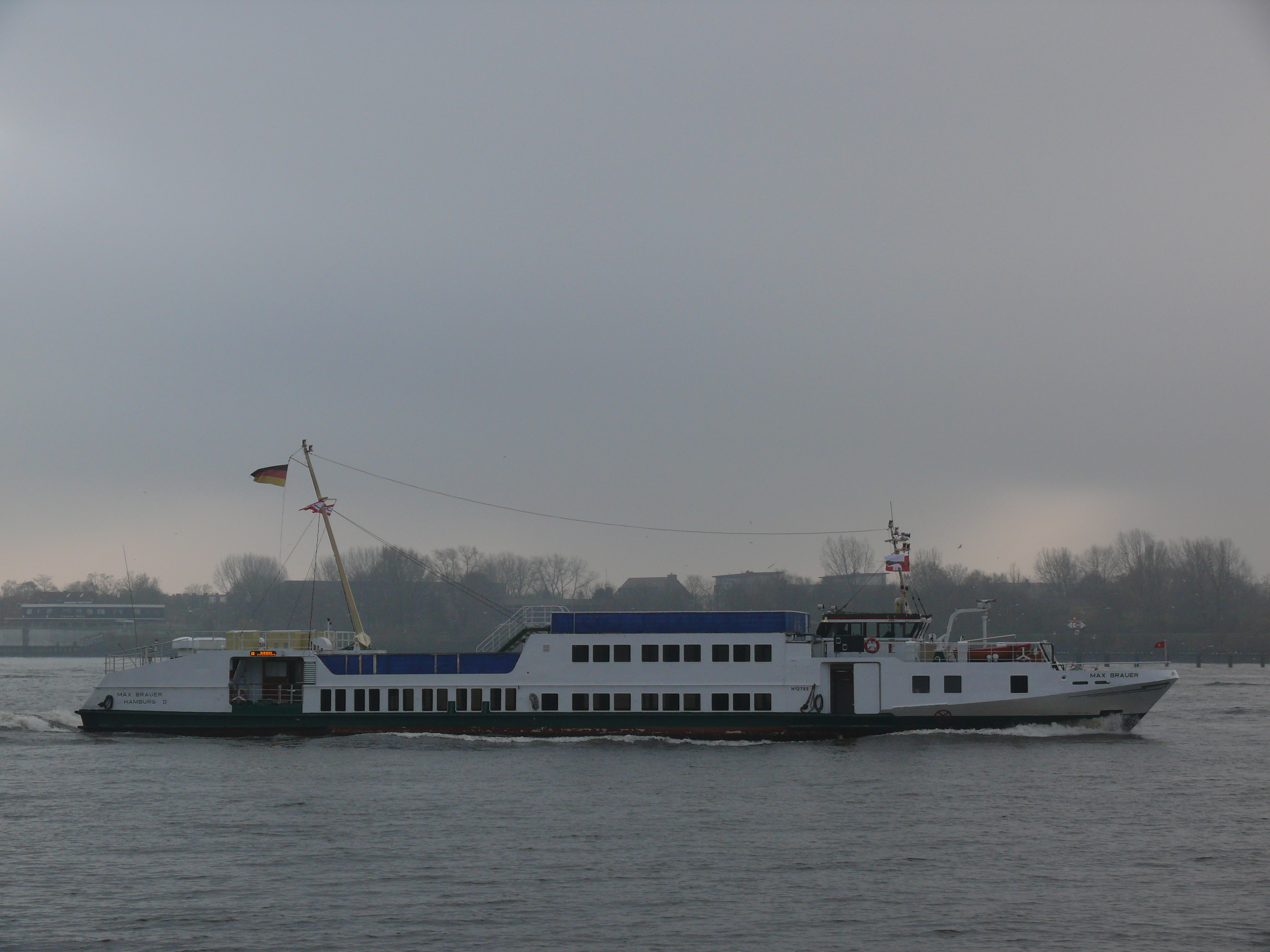 Harbourferry Max Brauer, Hamburg